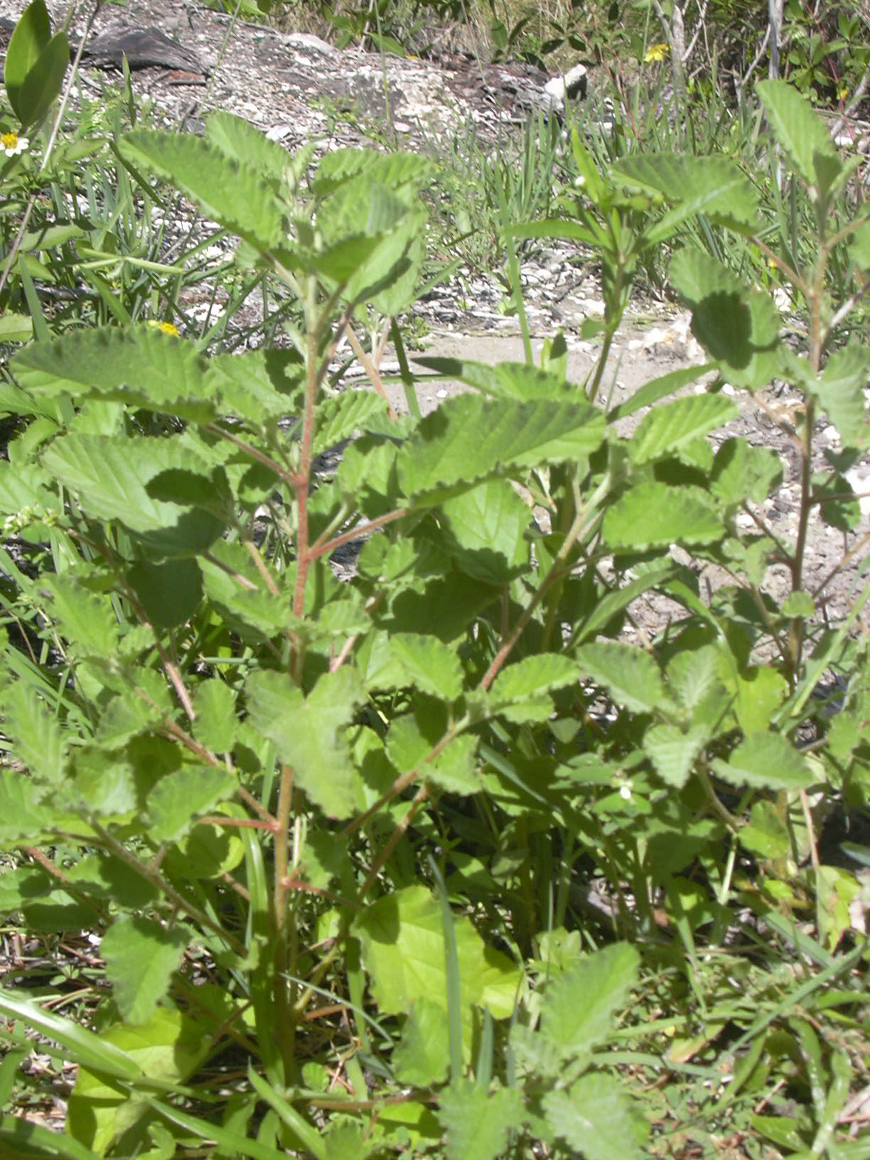 Waltheria indica (habit). Location: Florida, Deering Park